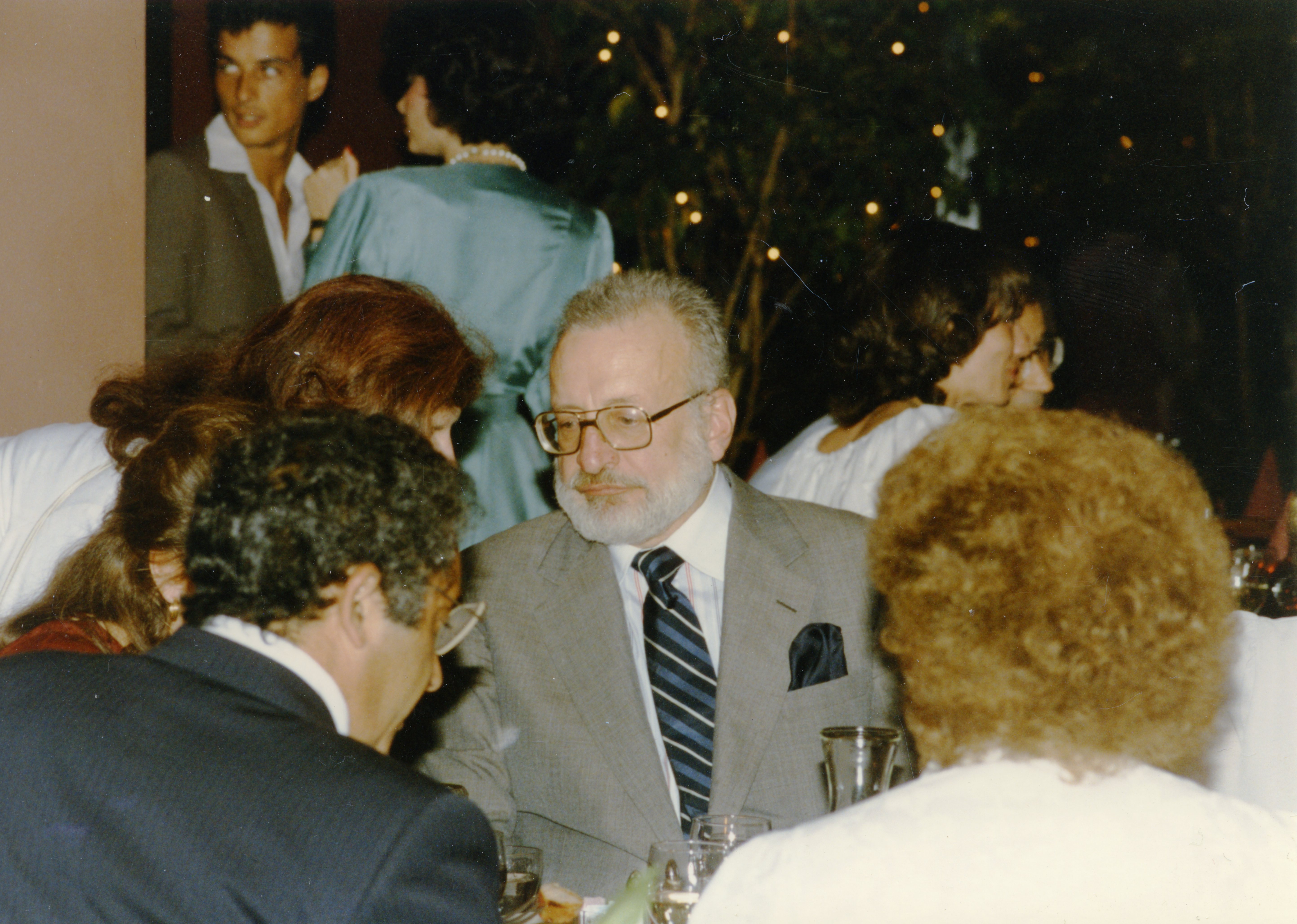 Opening night cast party for "Design for Living" in 1984